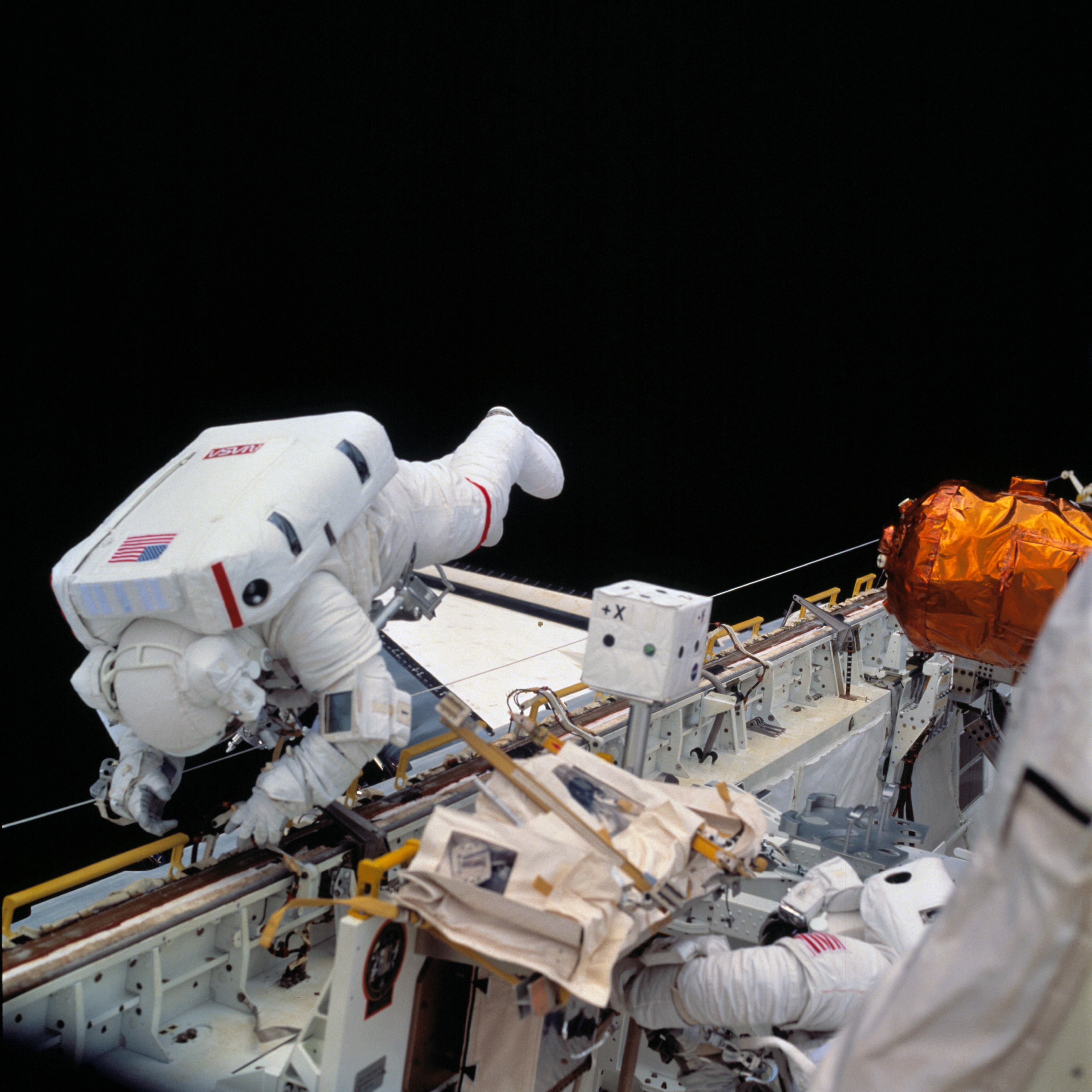 STS-69 astronauts James S. Voss (red stripe on space suit) and Michael L. Gernhardt work together at the Extravehicular Activity (EVA) Assembly and Maintenance Task Board in the cargo bay of Space Shuttle Endeavour. NASA photo STS069-714-042 in public domain.